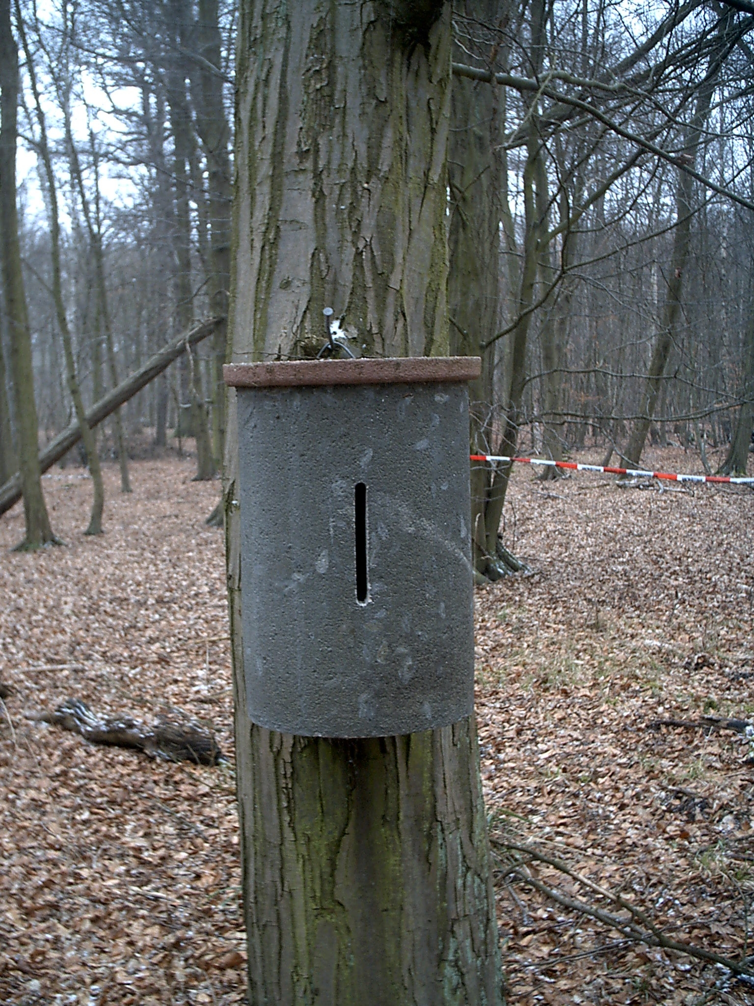 Nest box for hornets, taken on 26. February 2006 at Buchhorst between Braunschweig and Klein Schöppenstedt. In fact an artificial nesting cave for hornets from the german company "Strobel". Actually maintained by the forester of Riddagshausen, in delegation by a Braunschweigian preservation group for hornets and bumble-bees.